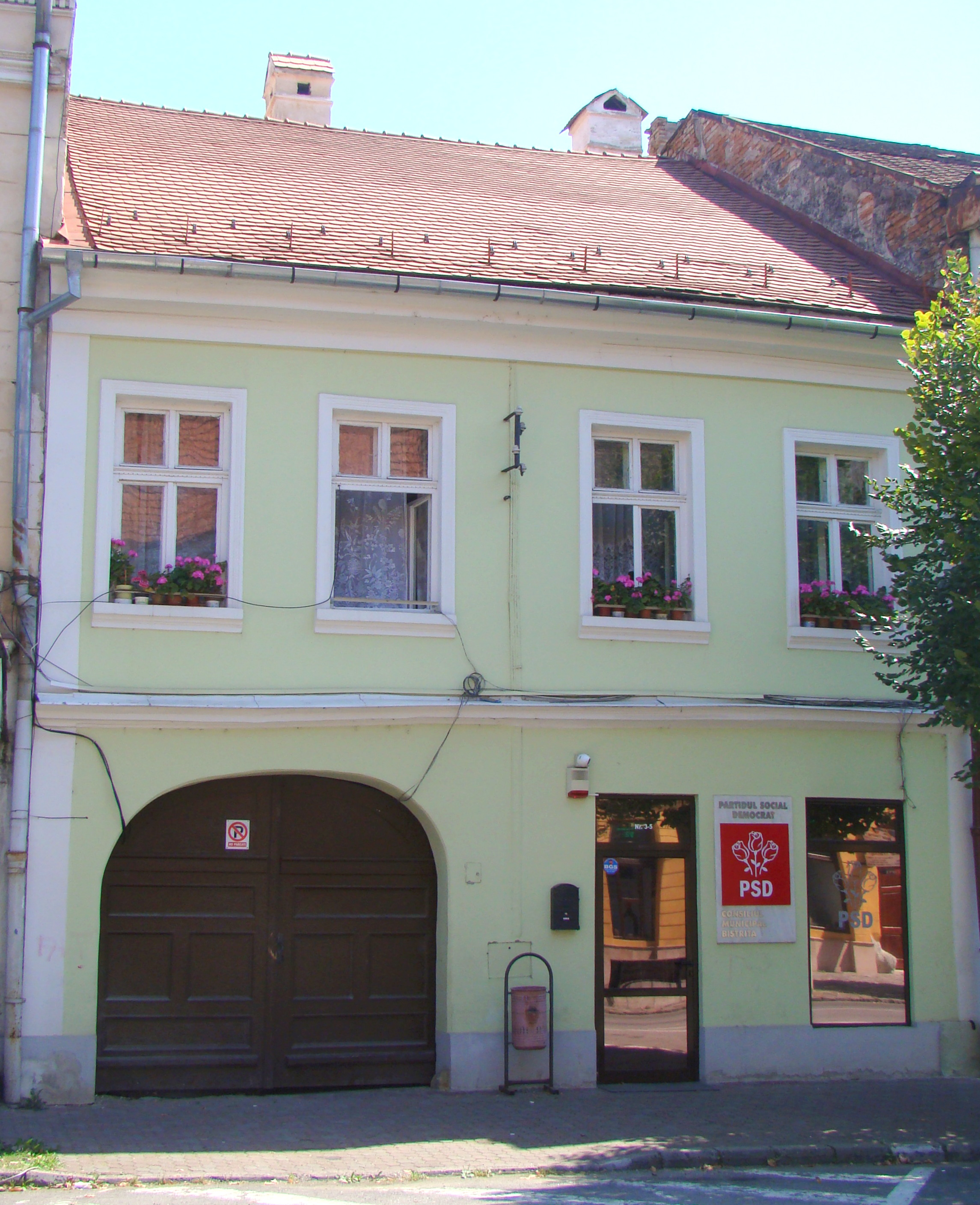 House, historic monument, in Bistrița, Gheorghe Șincai street 3-5